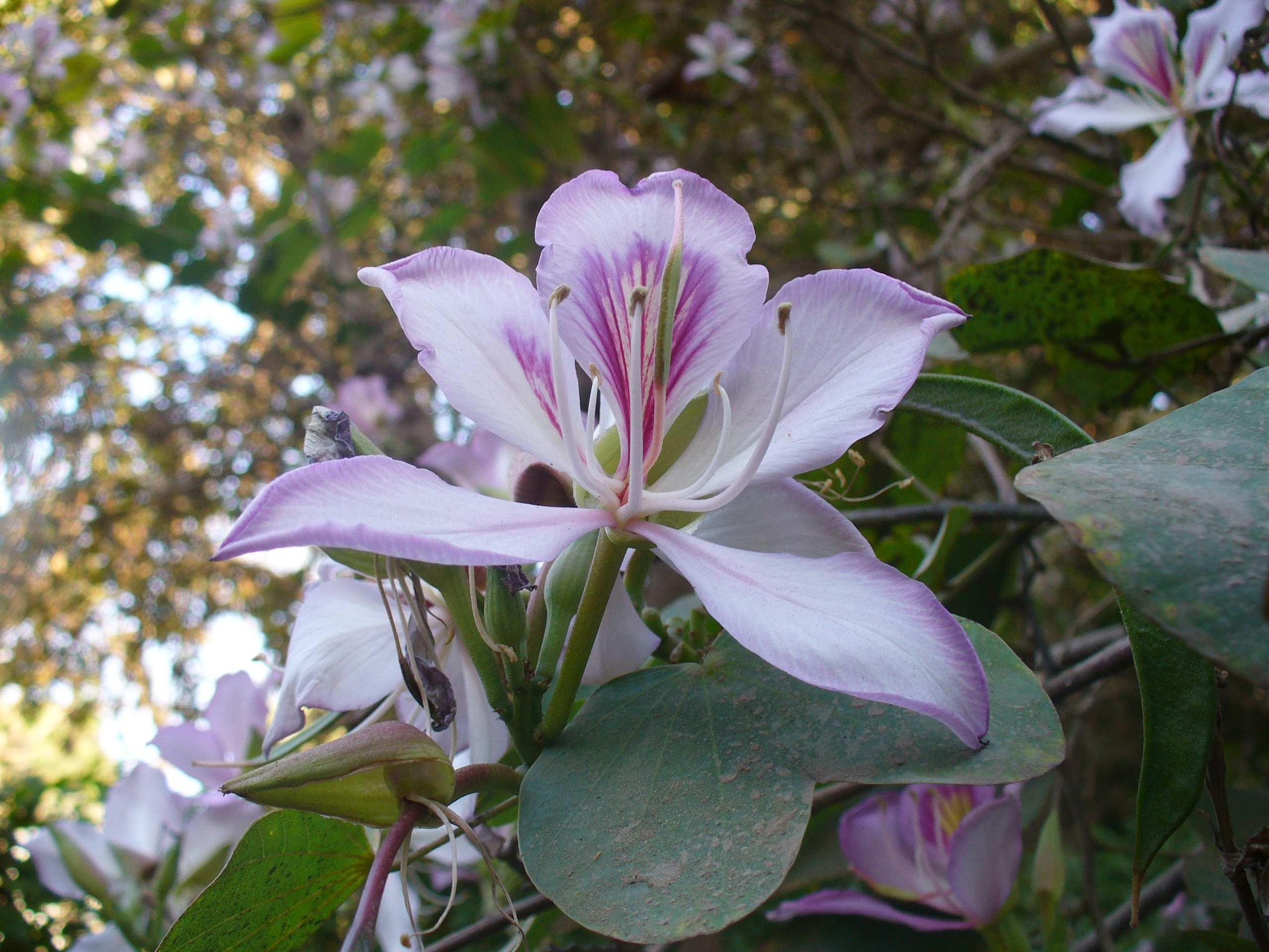 flower of Bauhinia variegata, the Camel Hoof Tree خف الجمل, photo taken in Ma'adi, Cairo, Egypt